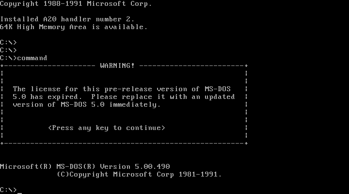 MS-DOS 5.00.490 Beta Command